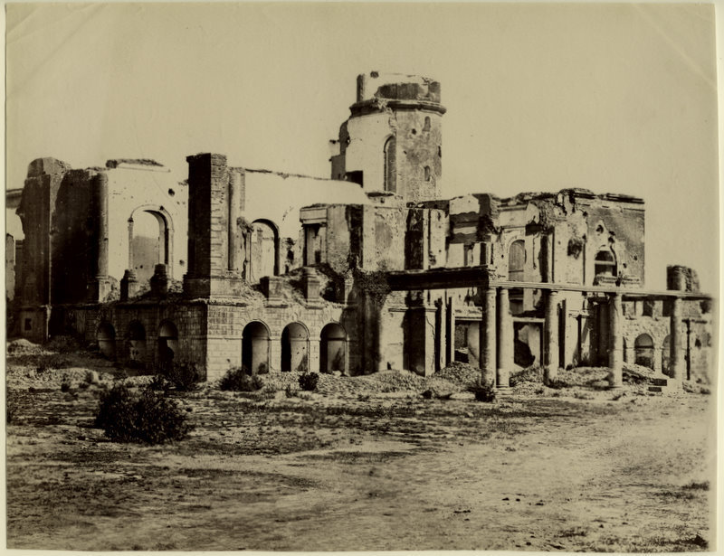 Ruins of Residency Lucknow - 1880's